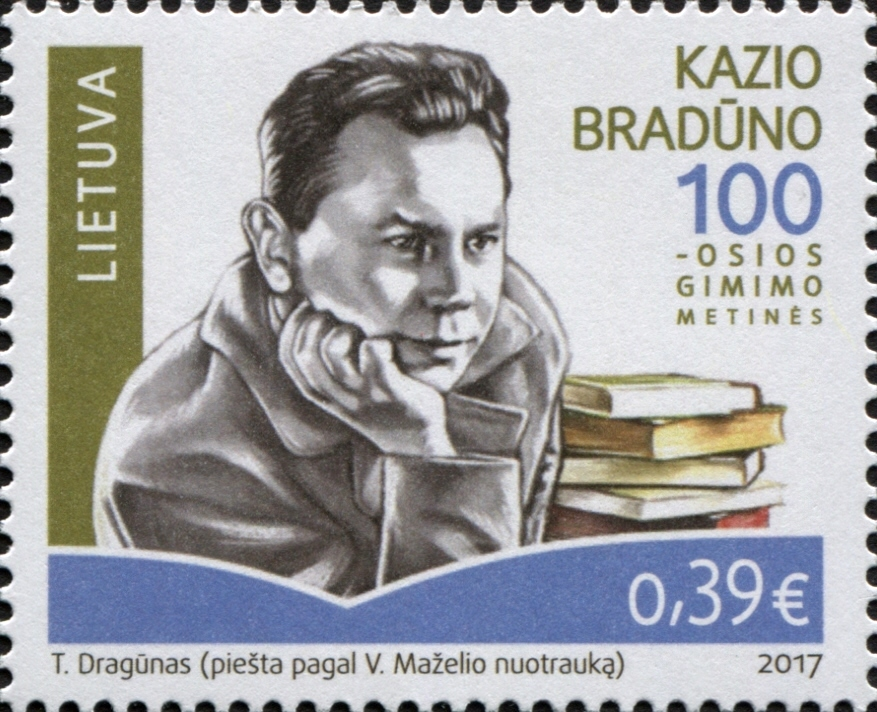 100th Anniversary of Kazys Bradūnas